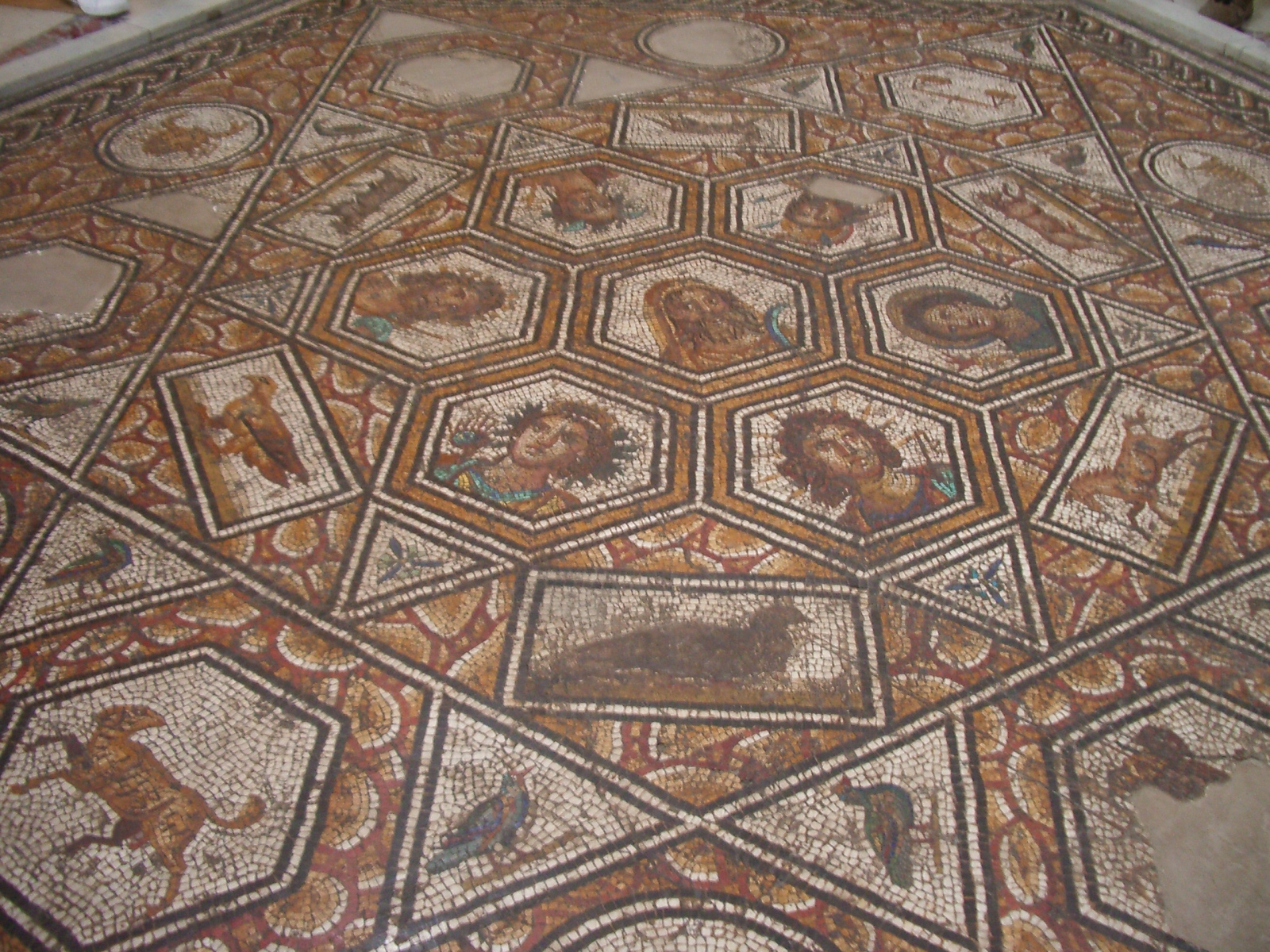 Ancient Roman mosaics in the Bardo National Museum (Tunis).